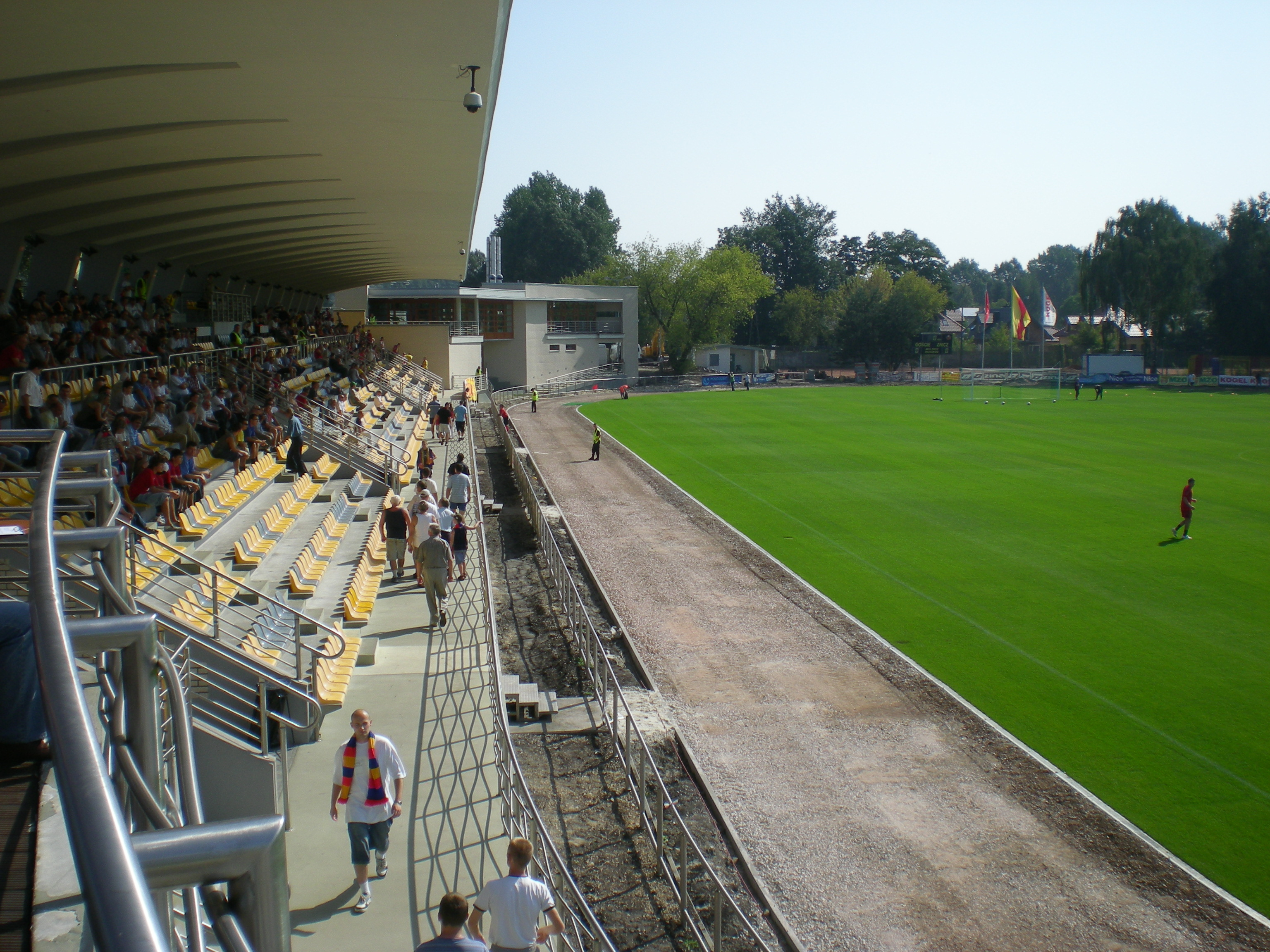 The Stadium of Znicz Pruszków just before the game.